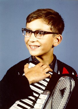 Henry Doktorski III with accordion, c. 1966. Photo by Henry A. Doktorski (the father of Henry Doktorski III). Eagle Scouts